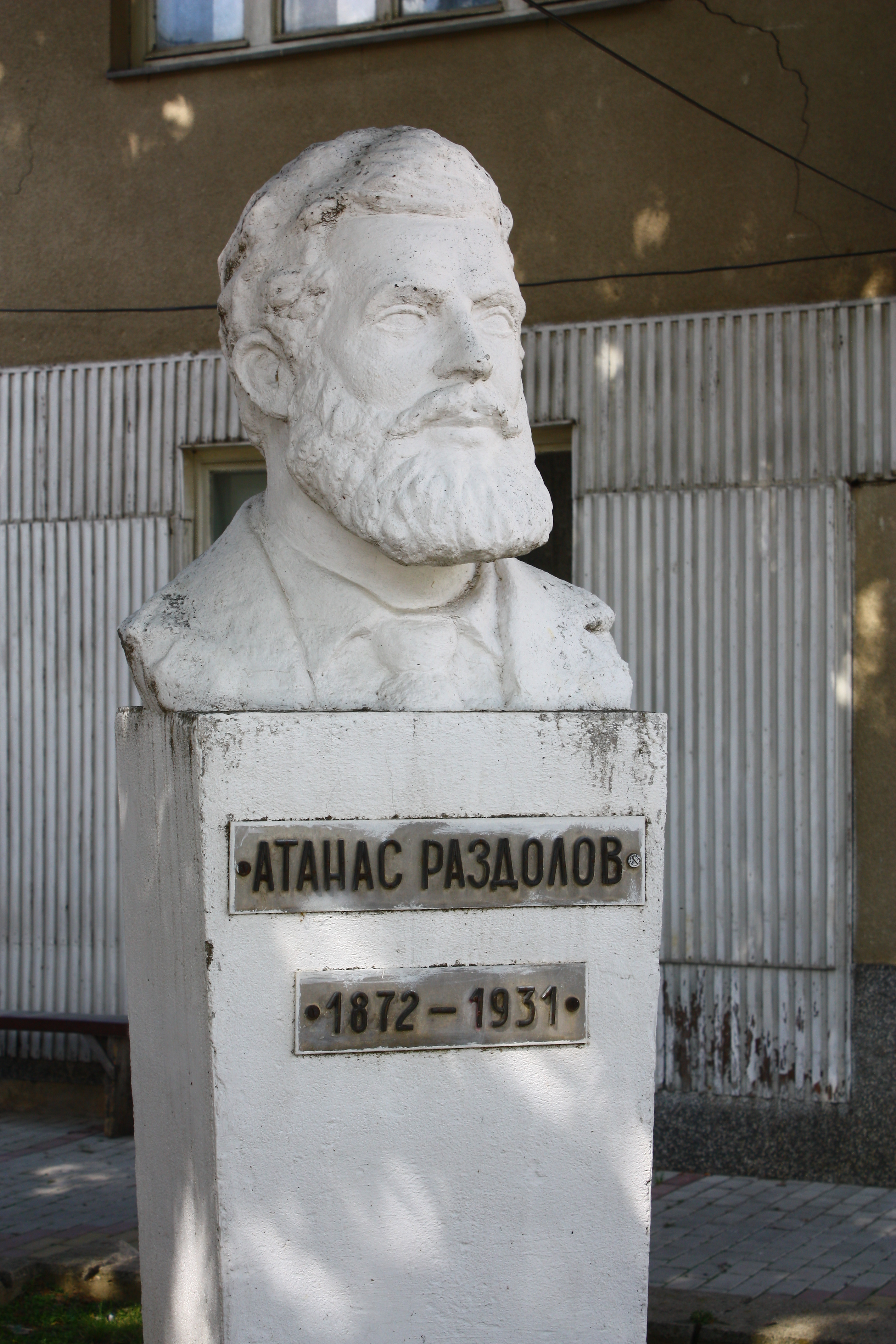 Monument in Berovo, Macedonia This image is uploaded as part of the picture contest Wiki Loves Cultural Heritage in Macedonia 2013. English | македонски | +/−